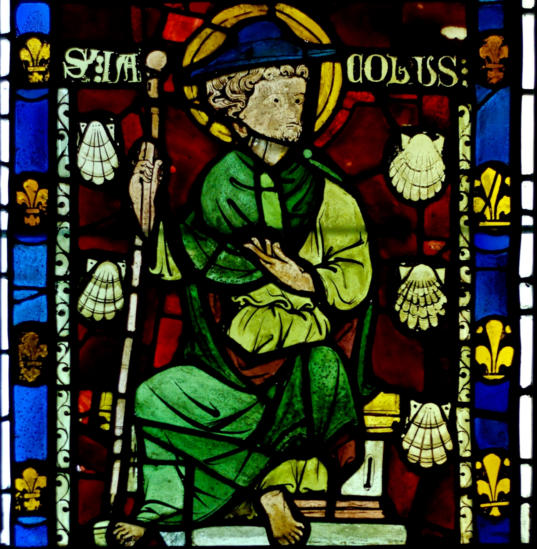 St James the Great, stained glass window from the chapel of the castle of Rouen.